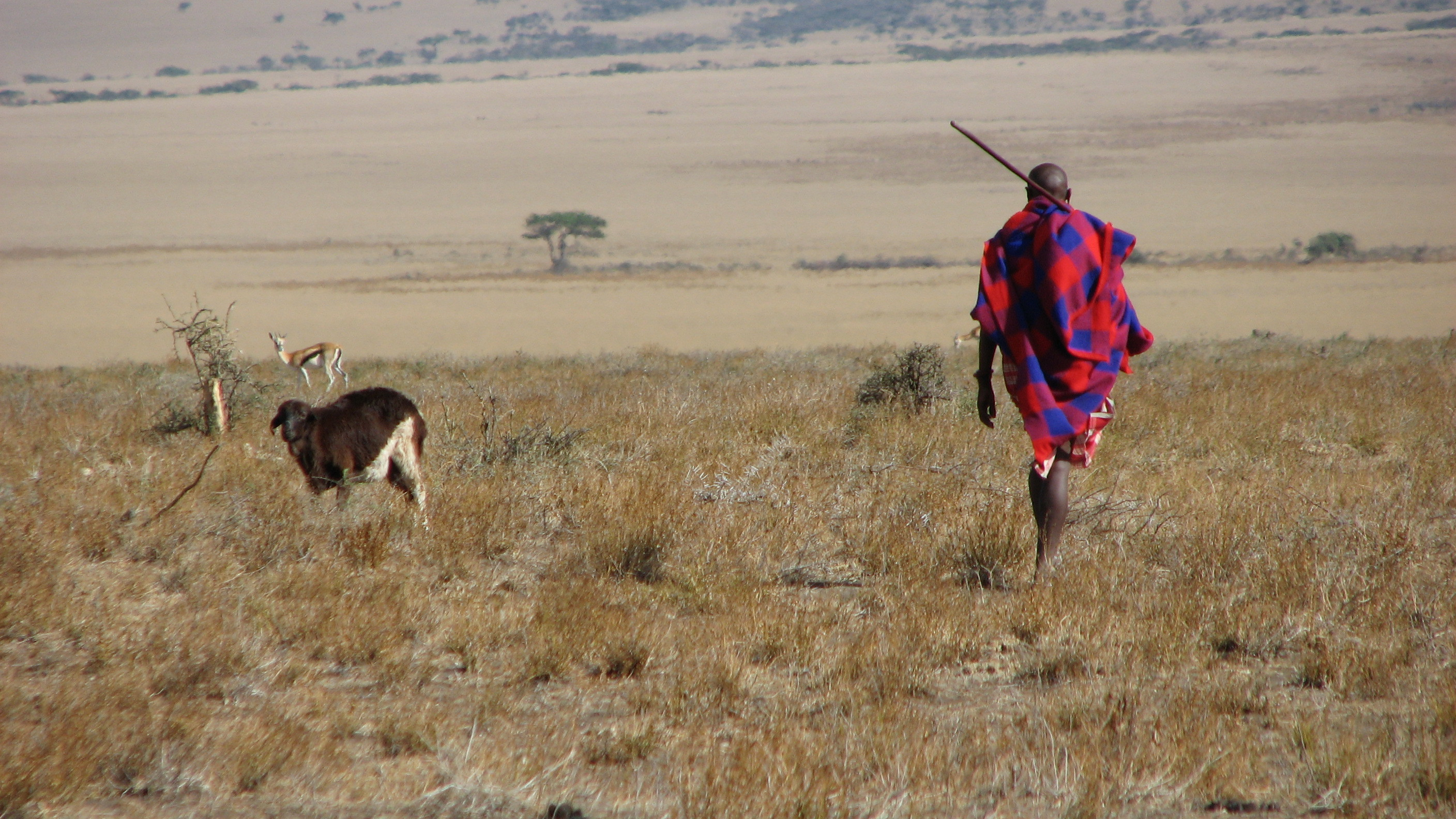 Maasai man, Eastern Serengeti